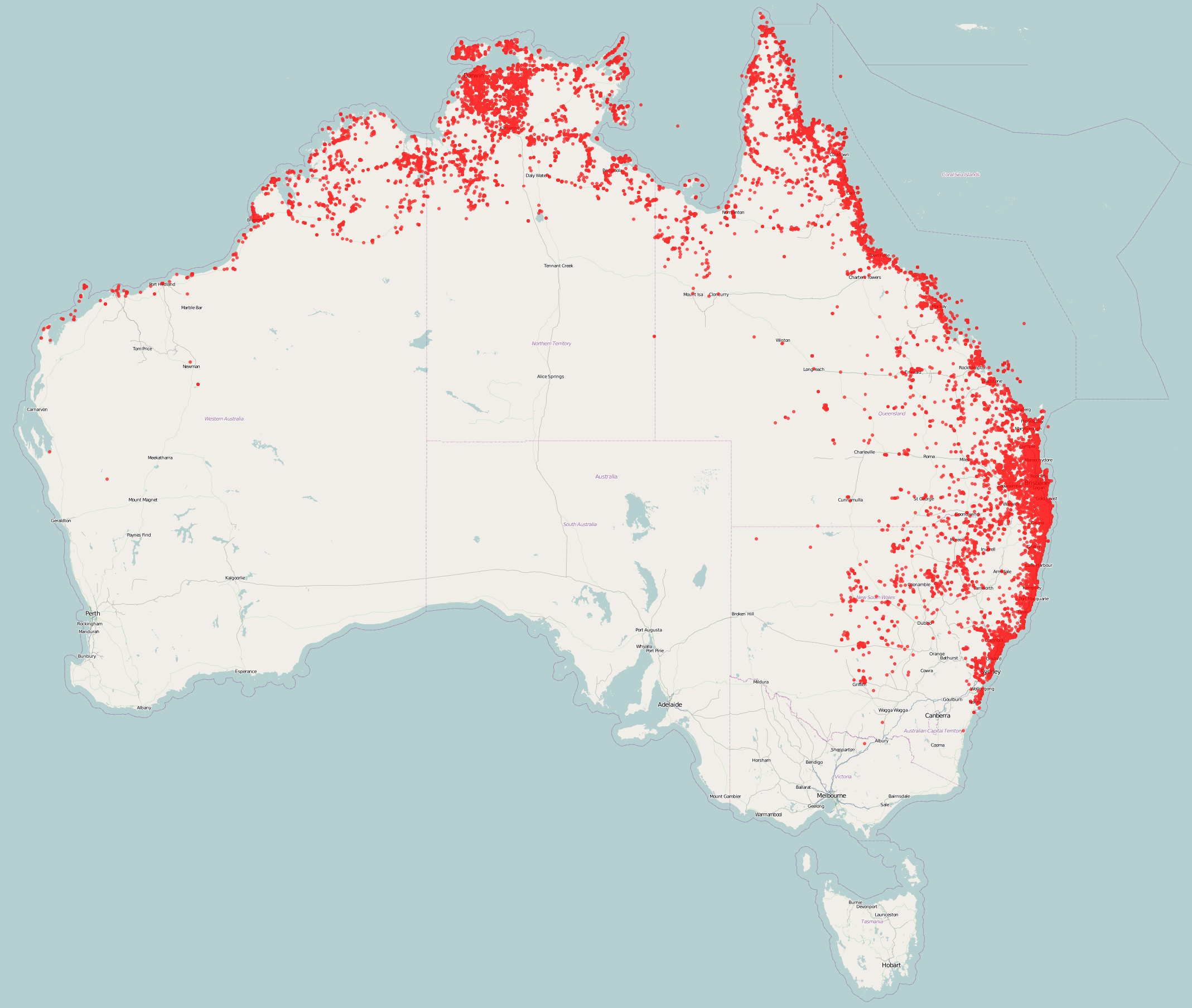 Adapted from The Atlas of Living Australia Data from: Birdata: 30,373 records Fauna Atlas N.T.: 7,896 records Eremaea: 3,631 records DECCW Atlas of NSW Wildlife: 3,452 records QLD Coastal Bird Atlas: 903 records Australian National Wildlife Collection provider for OZCAM: 257 records Western Australian Museum provider for OZCAM: 75 records Australian Museum provider for OZCAM: 70 records Museum Victoria provider for OZCAM: 40 records Butterflies of Gordon Park: 2 records EOL Flickr Group: 2 records South Australia Fauna Observations: 1 records Tasmanian Museum and Art Gallery provider for OZCAM: 1 records